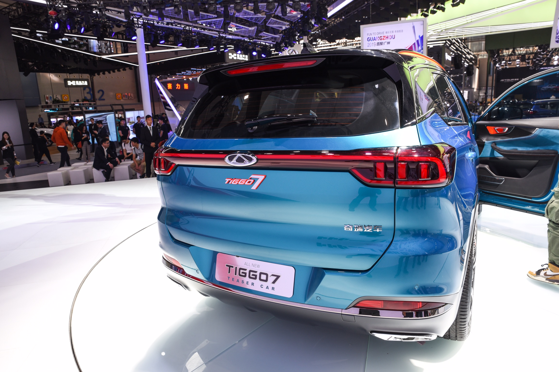 Second generation Chery Tiggo 7 rear view